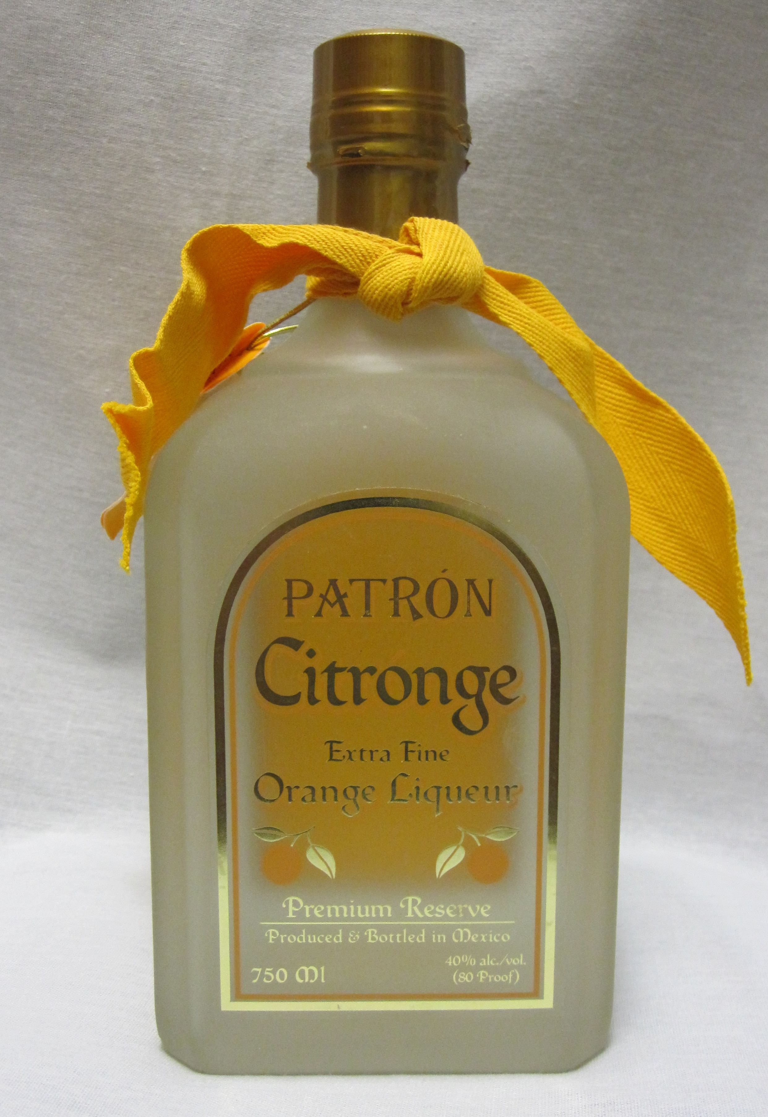 Bottle of Patrón Citronge